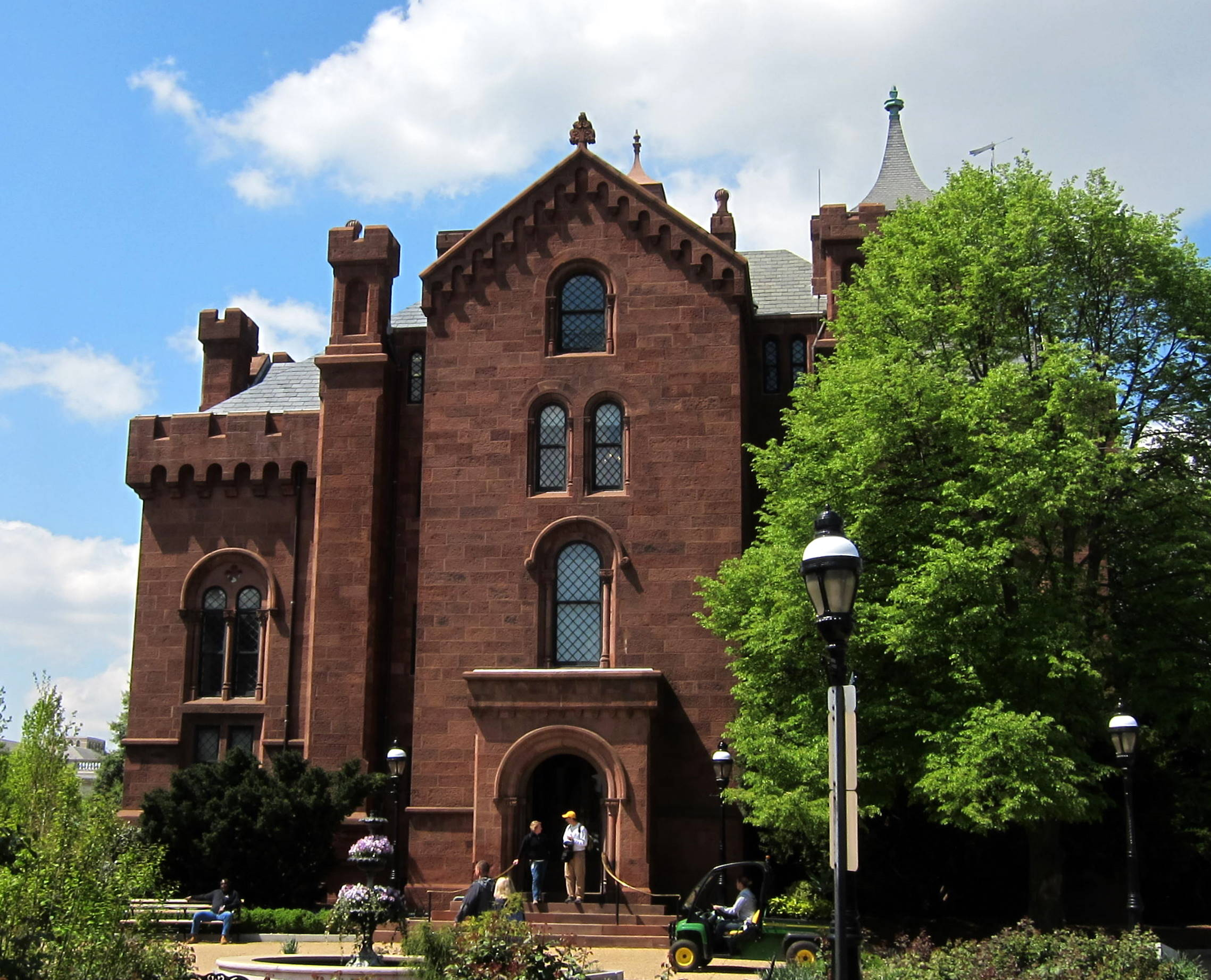 The east entrance to the Smithsonian Institution Building, located on the National Mall in Washington, D.C.